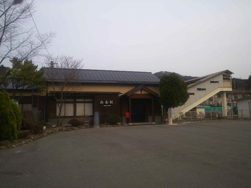 Nishijo Station